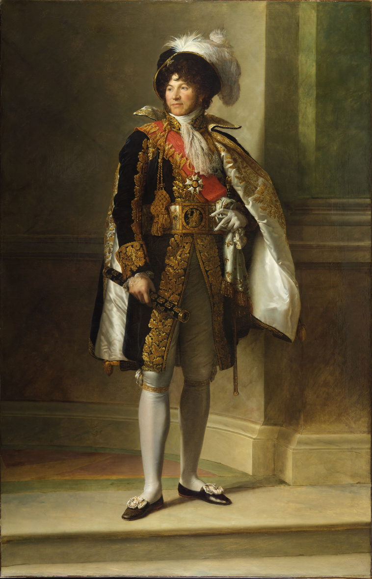 Murat Joachim king of Naples